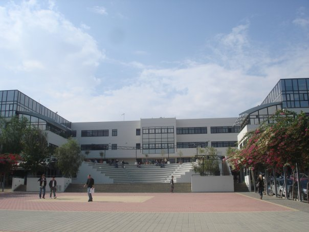 University if Nicosia's view of Amphitheatre